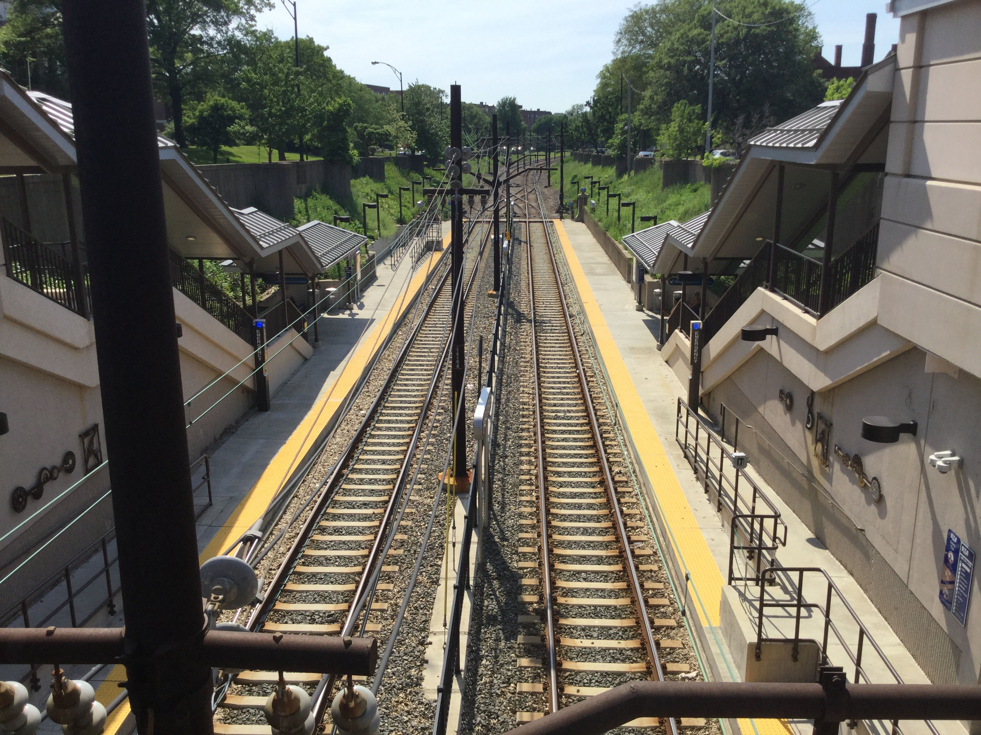 RTA station